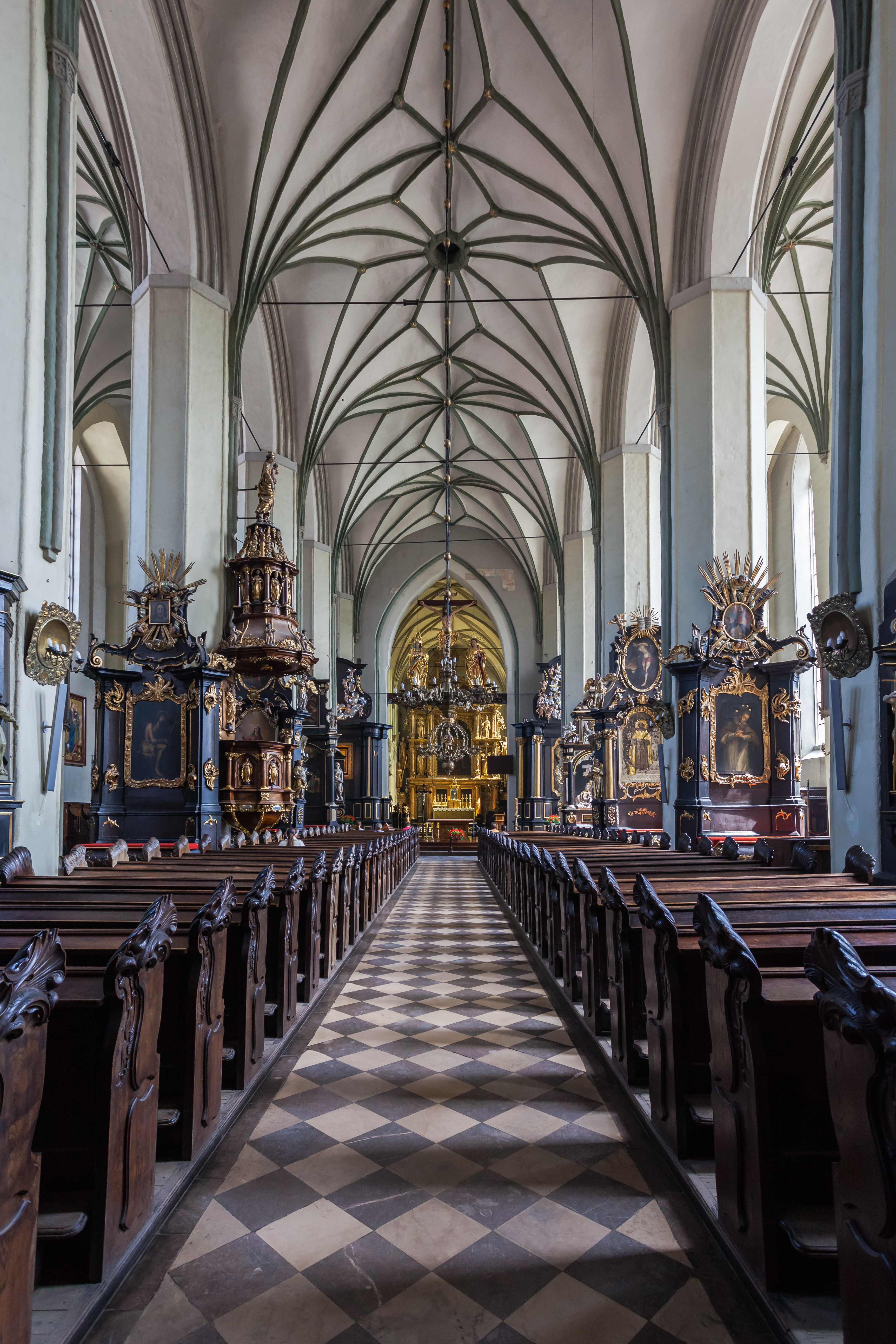 St. Nicholas church, Gdansk, Poland